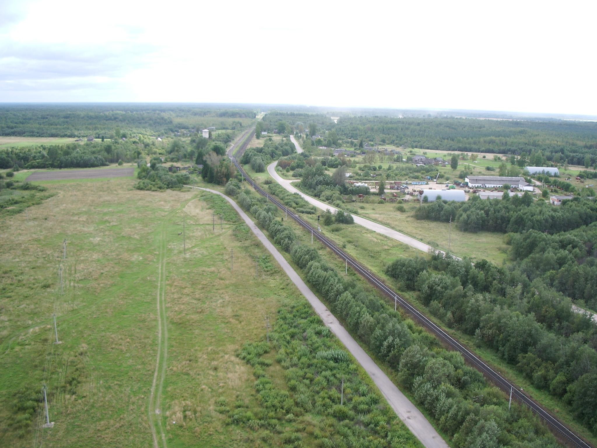 Peredolskaya railway station. Batetsky district, Novgorod oblast, Russia